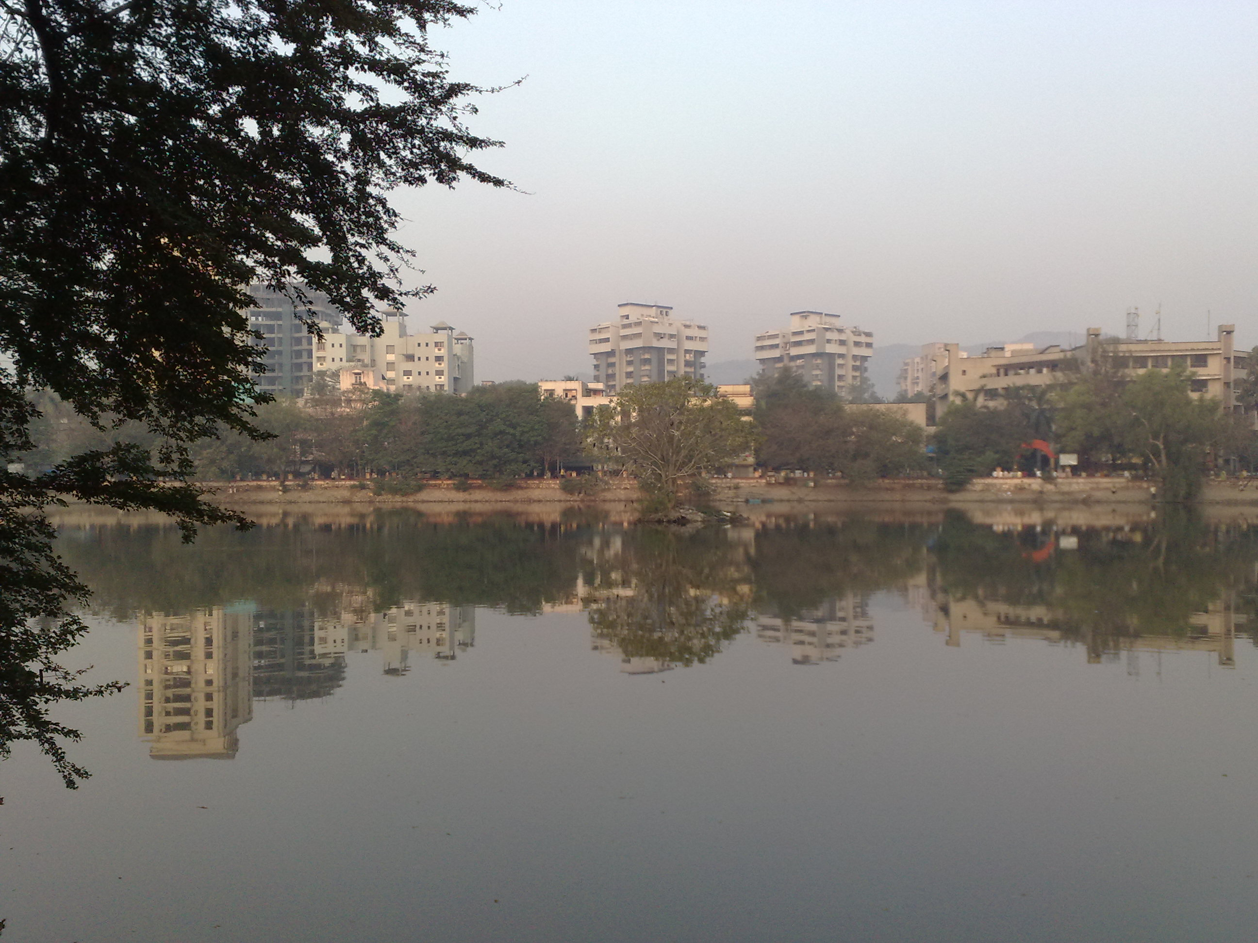 Author:Thaneboy, source:Taken directly from Mobile